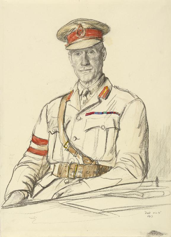 Lieut-general Sir Charles Louis Woollcombe, Kcb image: a half length portrait of Lieutenant-General Sir Charles Woollcombe in uniform, sitting behind a desk with his hands on his lap.